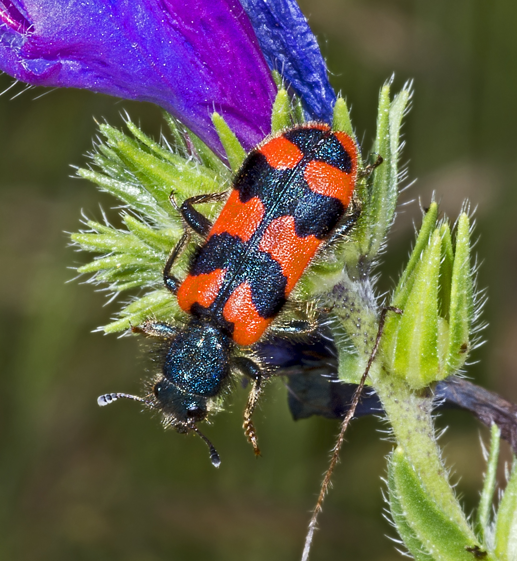 Trichodes alvearius on Viper's Bugloss